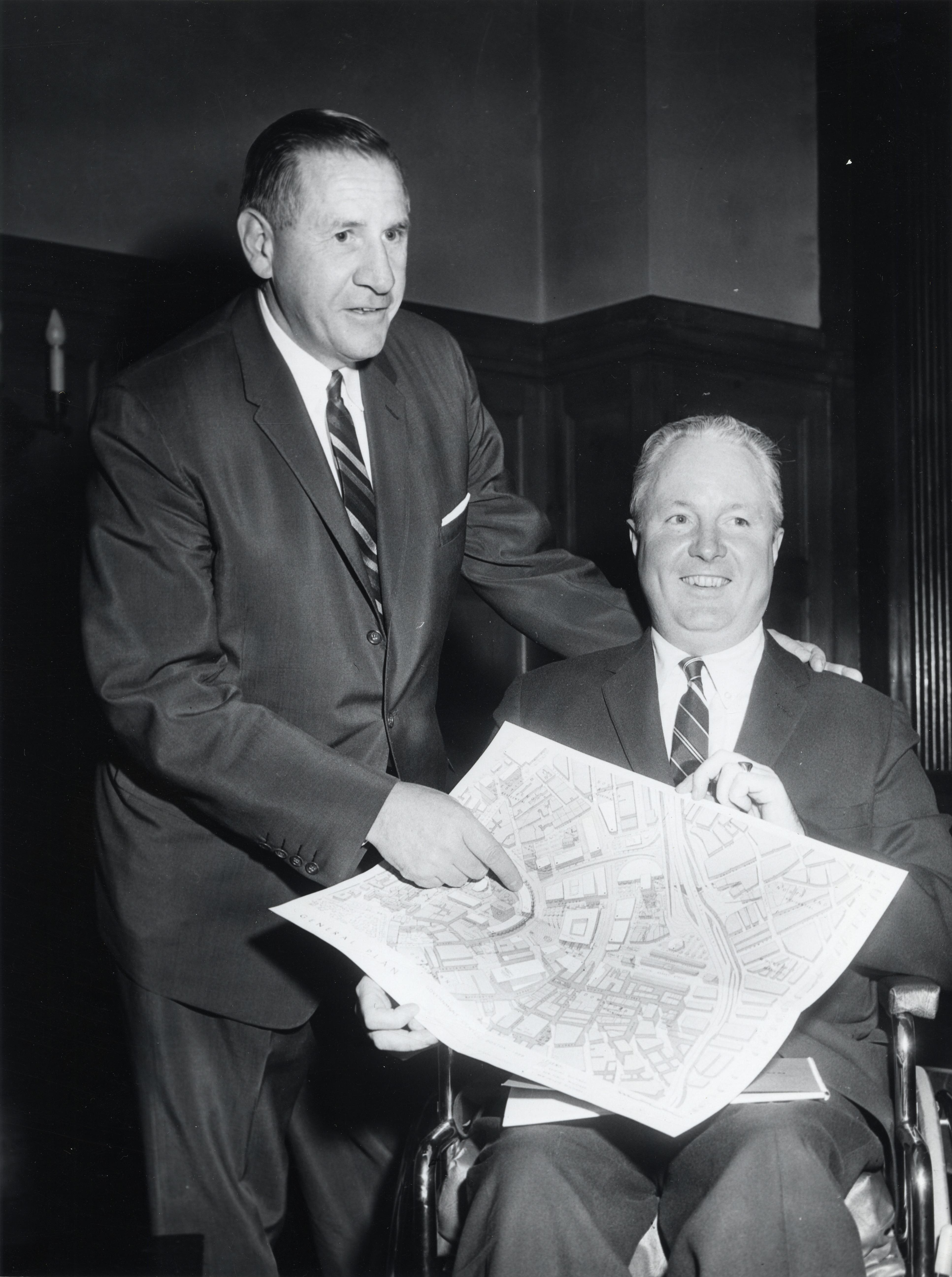 Title: Governor Foster Furcolo and Mayor John F. Collins hold the plans for Government Center Creator: City of Boston Date: circa 1960-1968 Source: Mayor John F. Collins records, Collection #0244.001 File name: 244001_0788 Rights: Copyright City of Boston Citation: Mayor John F. Collins records, Collection #0244.001, City of Boston Archives, Boston